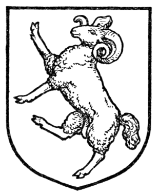 Fig. 396.—Ram rampant.